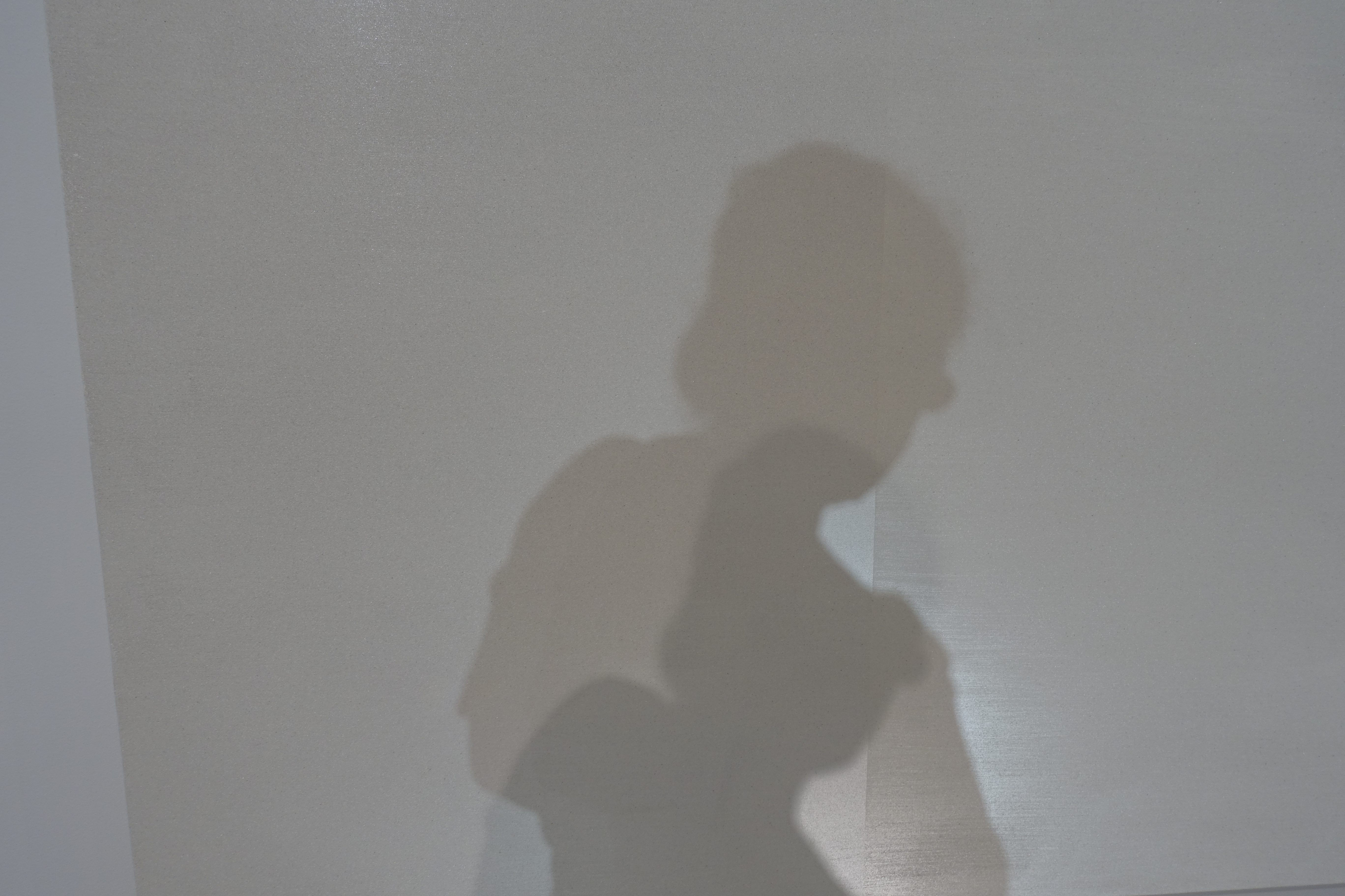 Light halo around my own shadow on a work of Mary Corse, taken in the Whitney Museum, New York City, 2018. Untiteld work (White Inner Band, Beveled), 2011